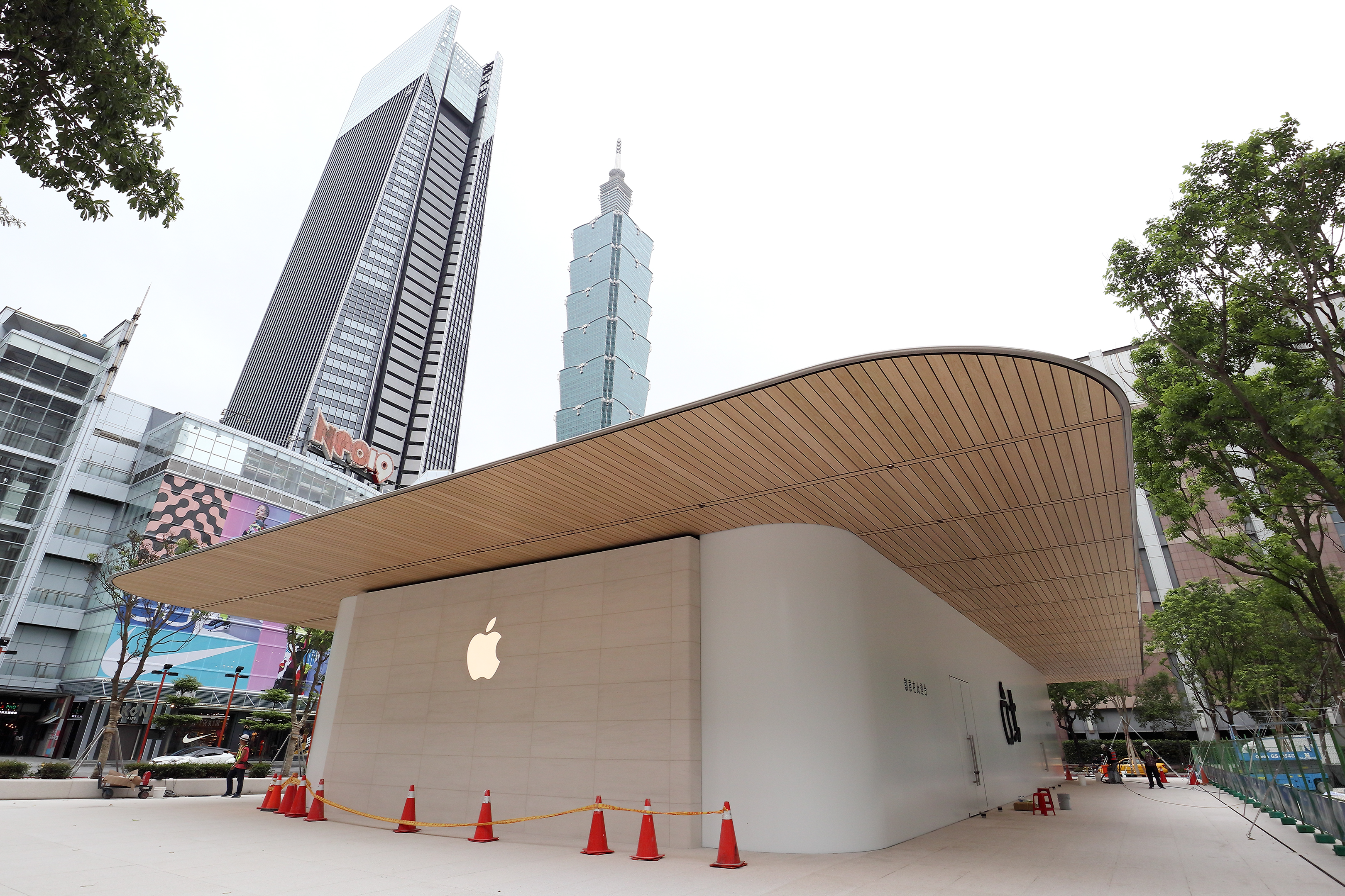 Second Apple Store in Taipei, Taiwan - located in Xinyi District A13